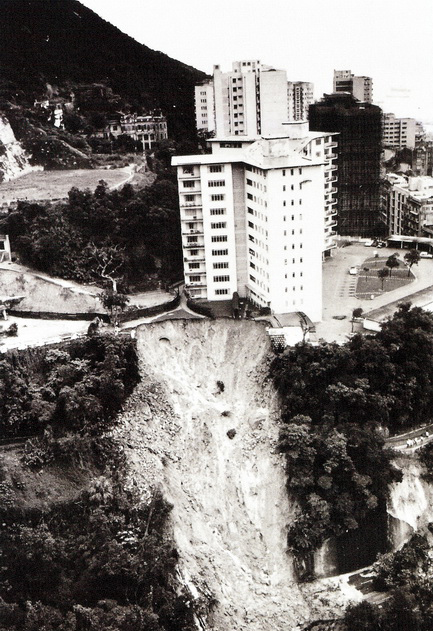 June 12 floods in 1966, Hong Kong.